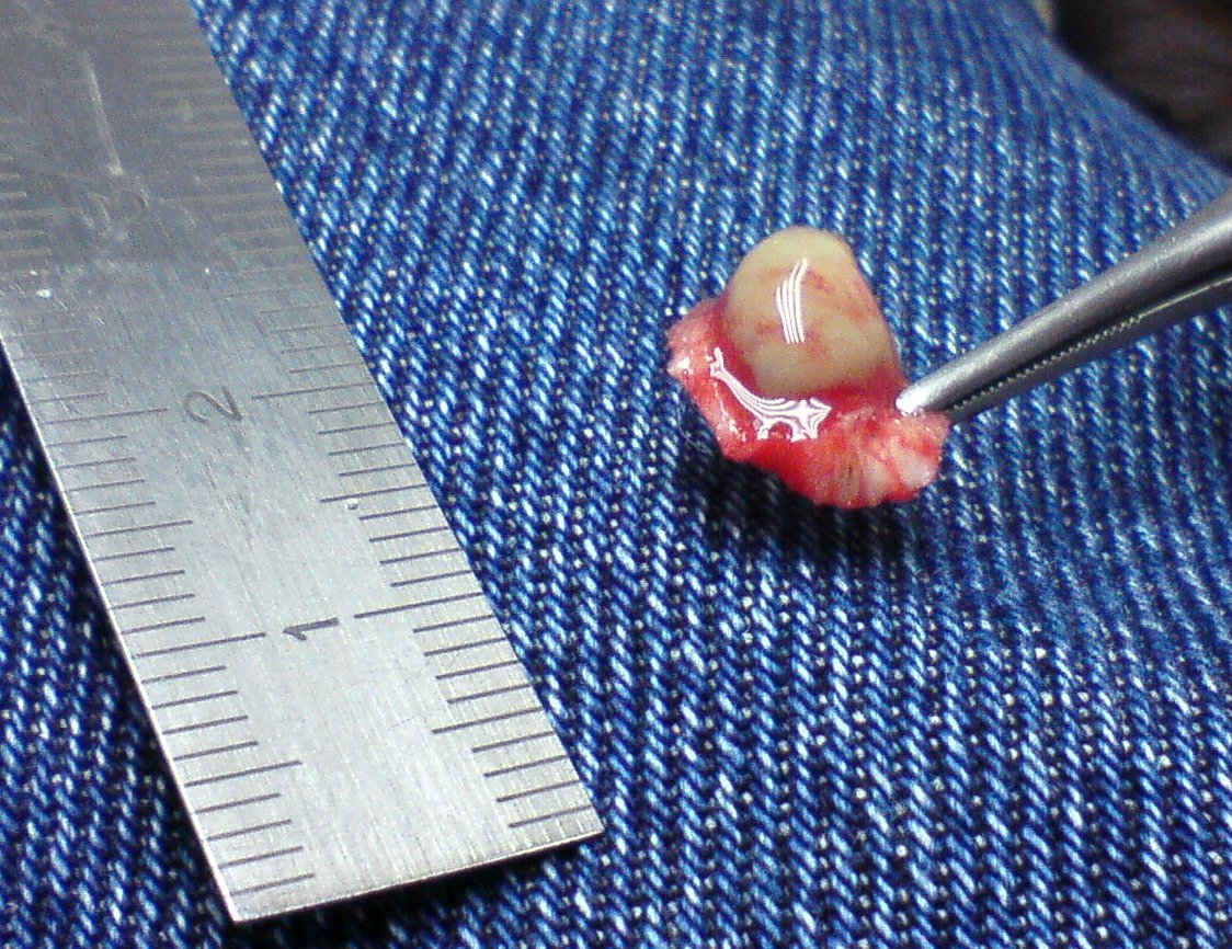 Plantar wart papilloma. The papilloma was extracted out of patient's footsole just before the photo was taken.